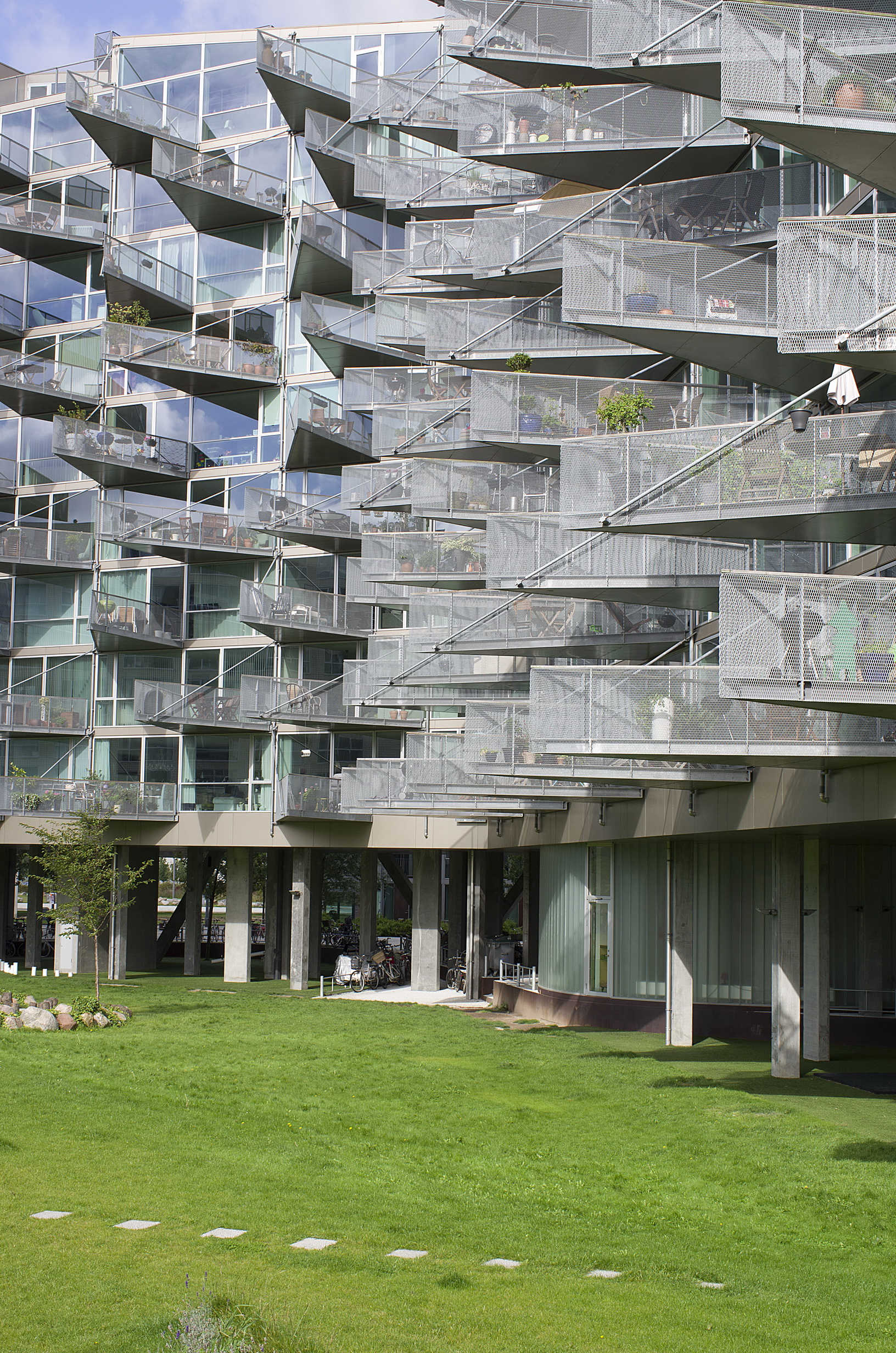 Balconies of the VM Houses in Copenhagen, Denmark